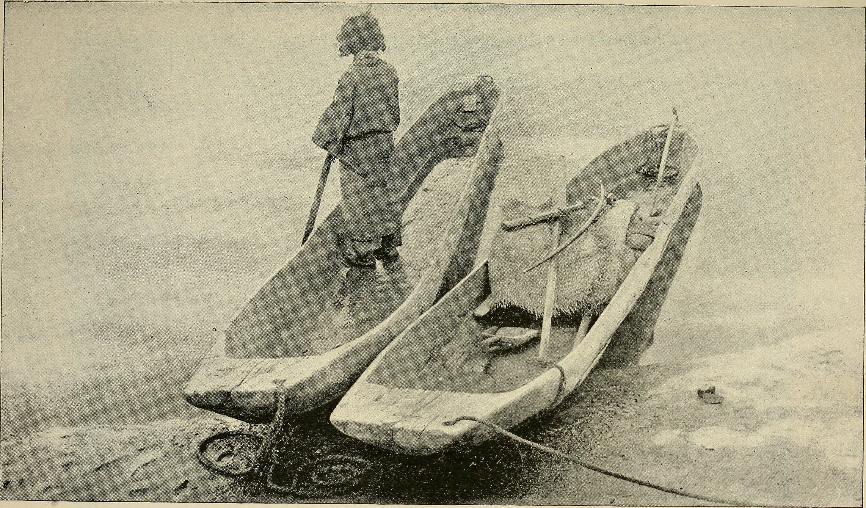 Title: Annual report of the Board of Regents of the Smithsonian Institution Year: 1846 (1840s) Authors: Smithsonian Institution. Board of Regents; United States National Museum. Report of the U. S. National Museum; Smithsonian Institution. Report of the Secretary Subjects: Smithsonian Institution; Smithsonian Institution. Archives; Discoveries in science Publisher: Washington : Smithsonian Institution Text Appearing Before Image: Report of National Museum, 1 890.—Hitchcock. Plate CX. Text Appearing After Image: '